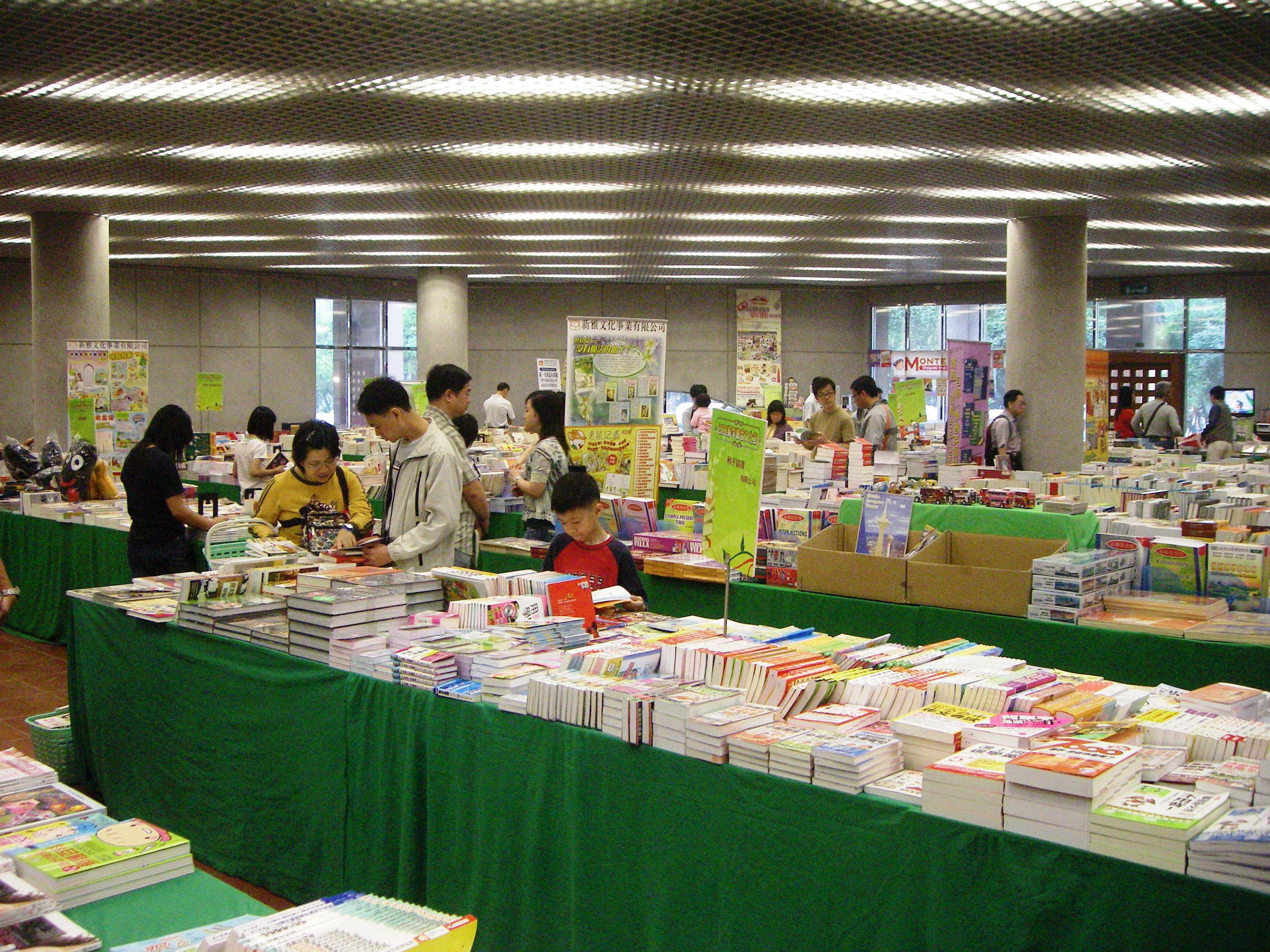 A Book Exhibition in Macau